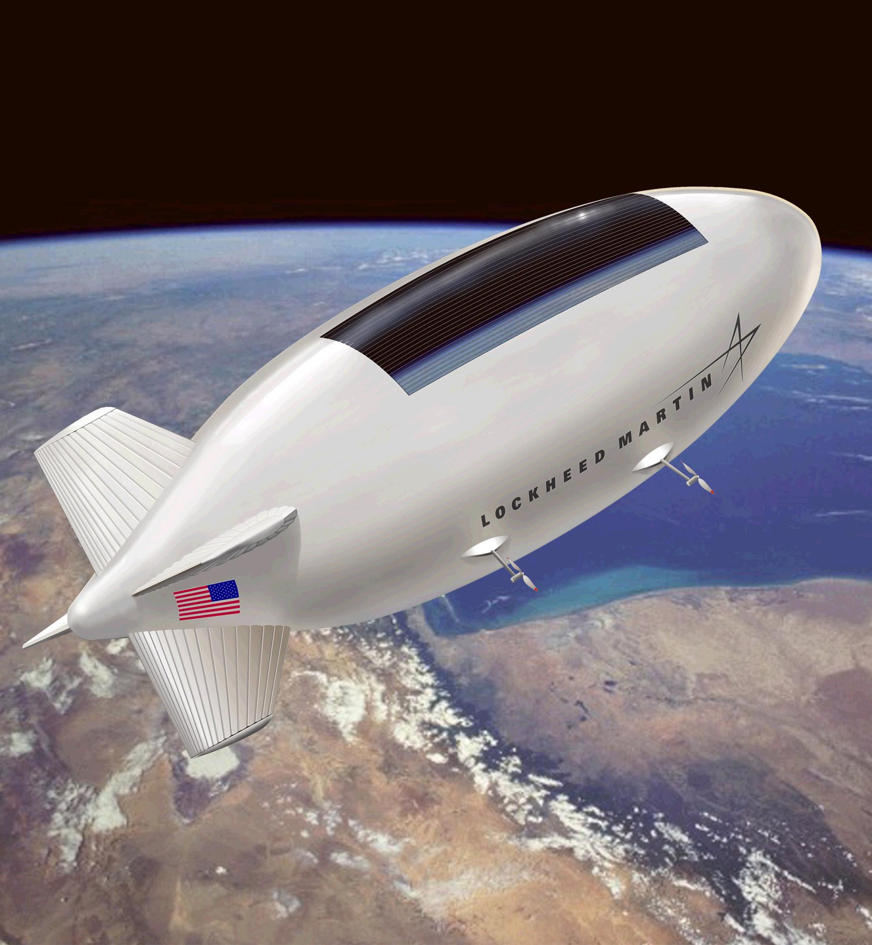 The major objective of the Airship Technology program is to design and produce a lighter-than-air High Altitude Airship (HAA) prototype to demonstrate the feasibility and potential military utility of an unmanned, untethered, gas-filled solar-powered airship. The prototype airship and support facility will become part of the BMDS Test Bed following its successful demonstration in 2006 and will be used for communications, weather/environmental monitoring, missile warning, and target surveillance/acquisition.